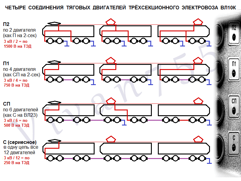 4 connetctions of DC traction motors of 3 kV DC electric locomotive VL10K